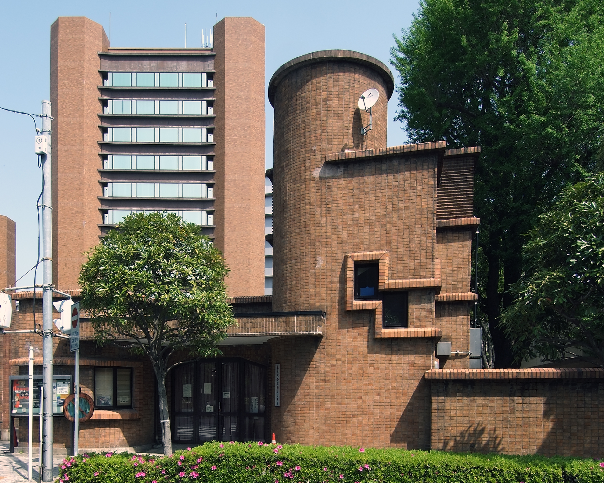 Information Center of Hongo Campus, Tokyo University at Bunkyo-ku Tokyo Japan, design by Hideto Kishida in 1926.